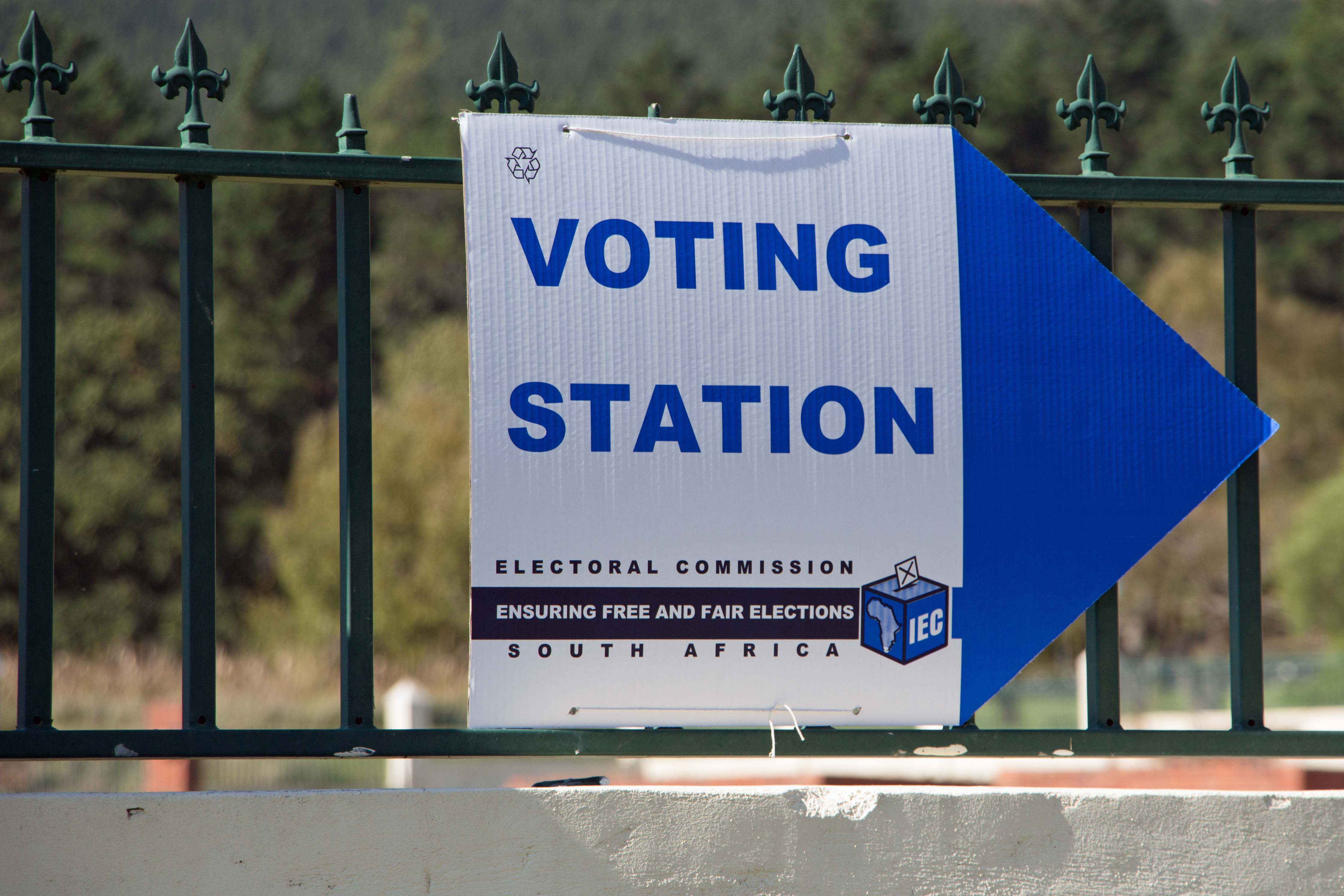 Voting day in Ward 10204021 in the 2014 general election, Paradyskloof, Stellenbosch, South Africa